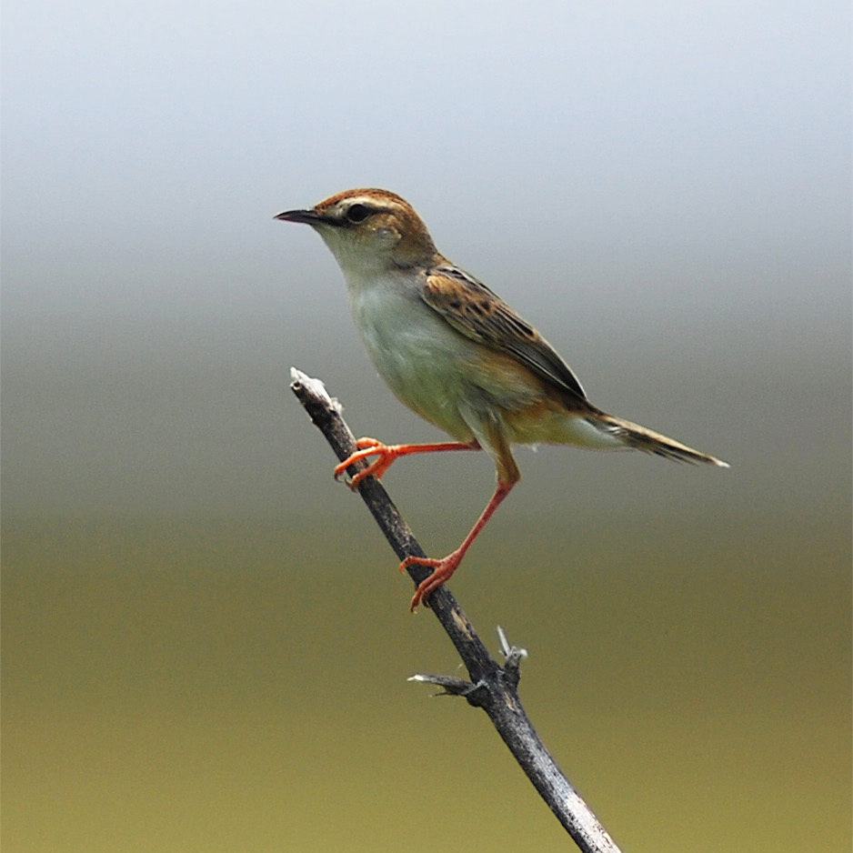 It is the drummer of the marsh overgrown with reeds.